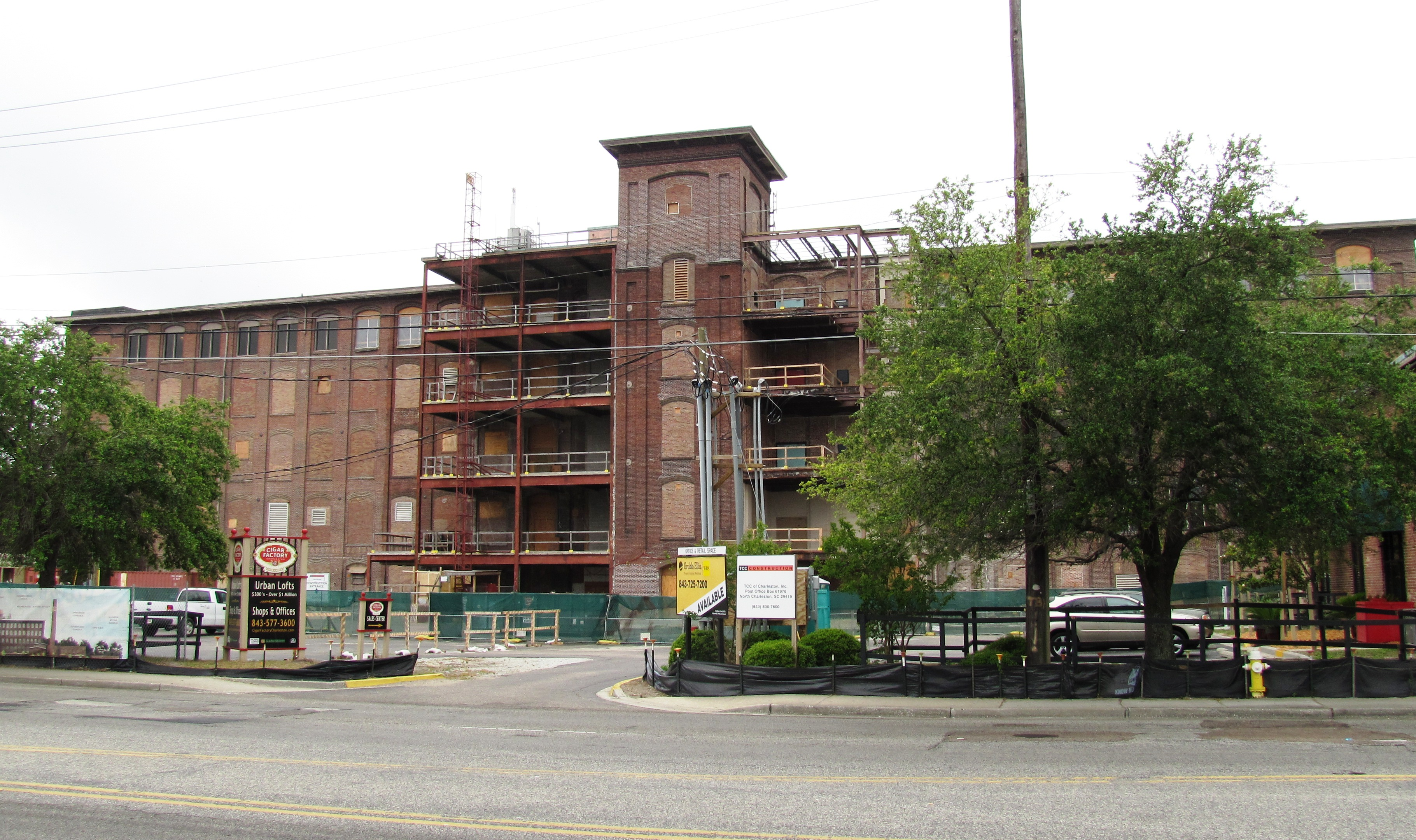 The NRHP-listed Cigar Factory in Charleston, South Carolina, USA.